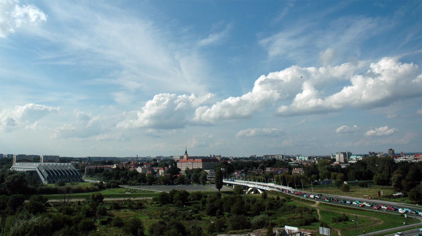 Panorama of the skyline of Rzeszów in the South-Eastern Poland, with the Rzeszów Castle.